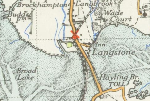 A map of Langston and surrounding areas from 1945 sheet 181